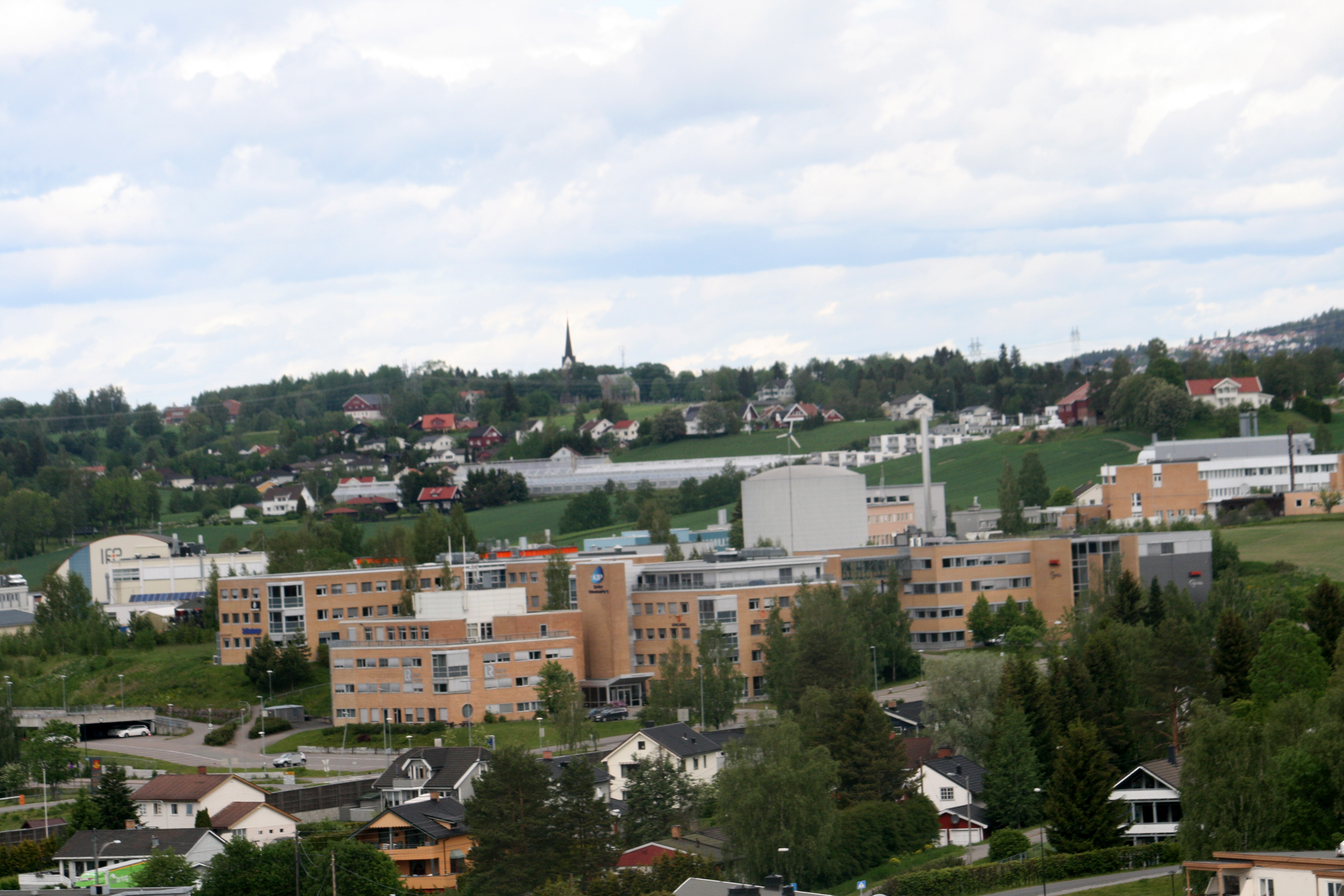 Aerial photograph from June 14th, 2015.